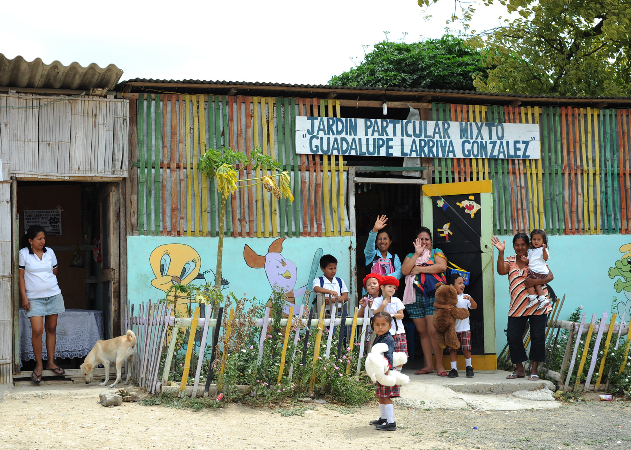 MANTA, Ecuador (May 24, 2011) Children, teachers and guests wave goodbye to personnel embarked aboard the Military Sealift Command hospital ship USNS Comfort (T-AH 20) following a community service event in Manta, Ecuador, in support of Continuing Promise 2011. Continuing Promise is a five-month humanitarian assistance mission to the Caribbean, Central and South America. (U.S. Navy photo by Mass Communication Specialist 2nd Class Eric C. Tretter/Released)